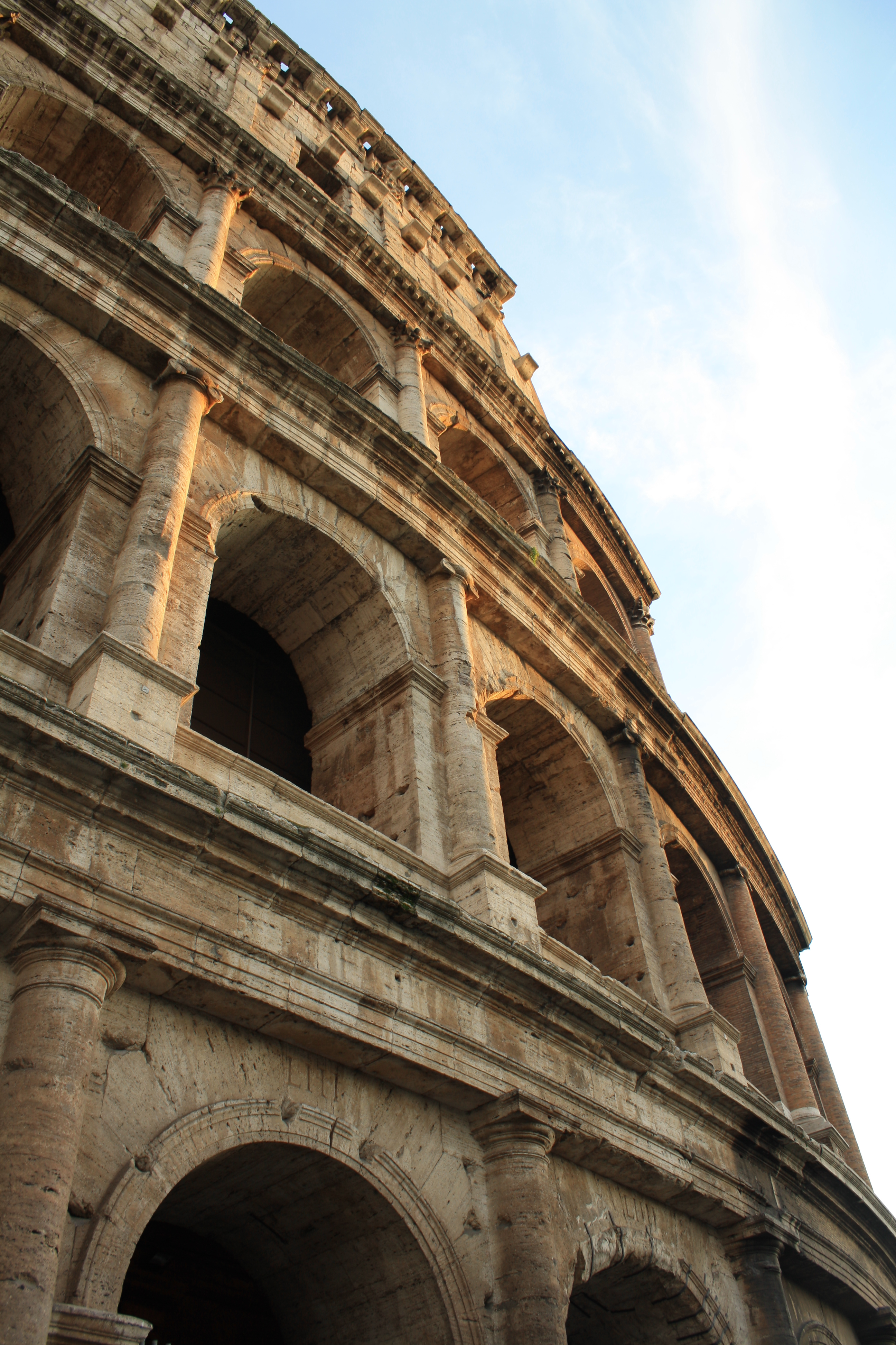 A picture of one of the sides of the Colosseum in Rome.